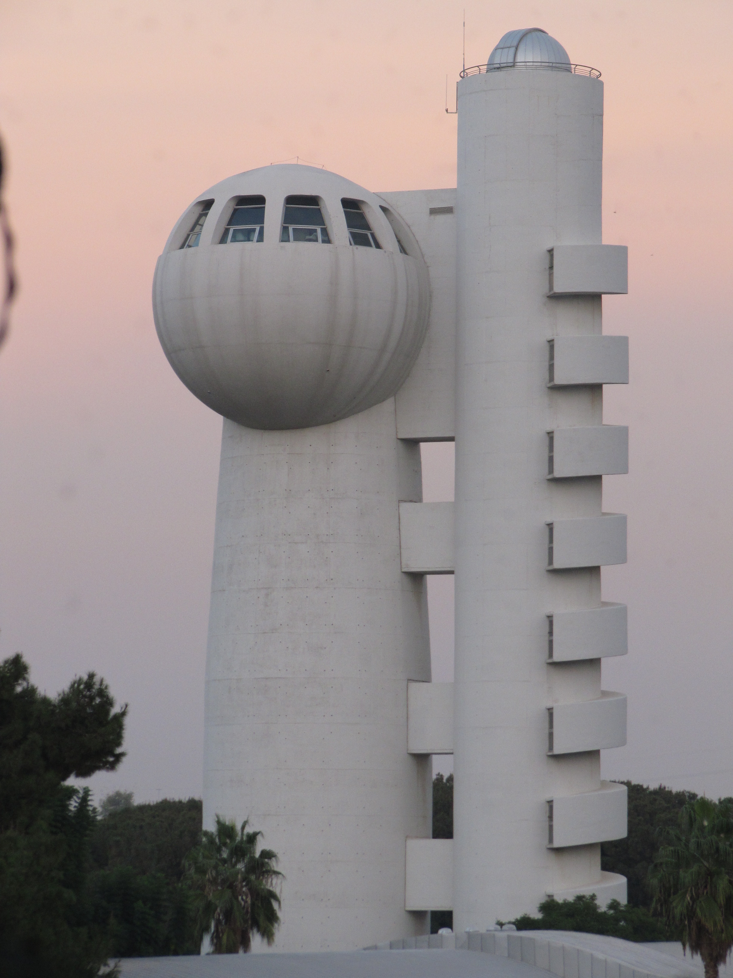 The Koffler Accelerator. A linear particle Accelerator, located in the Weizmann Institute of Science, Rehovot, Israel.